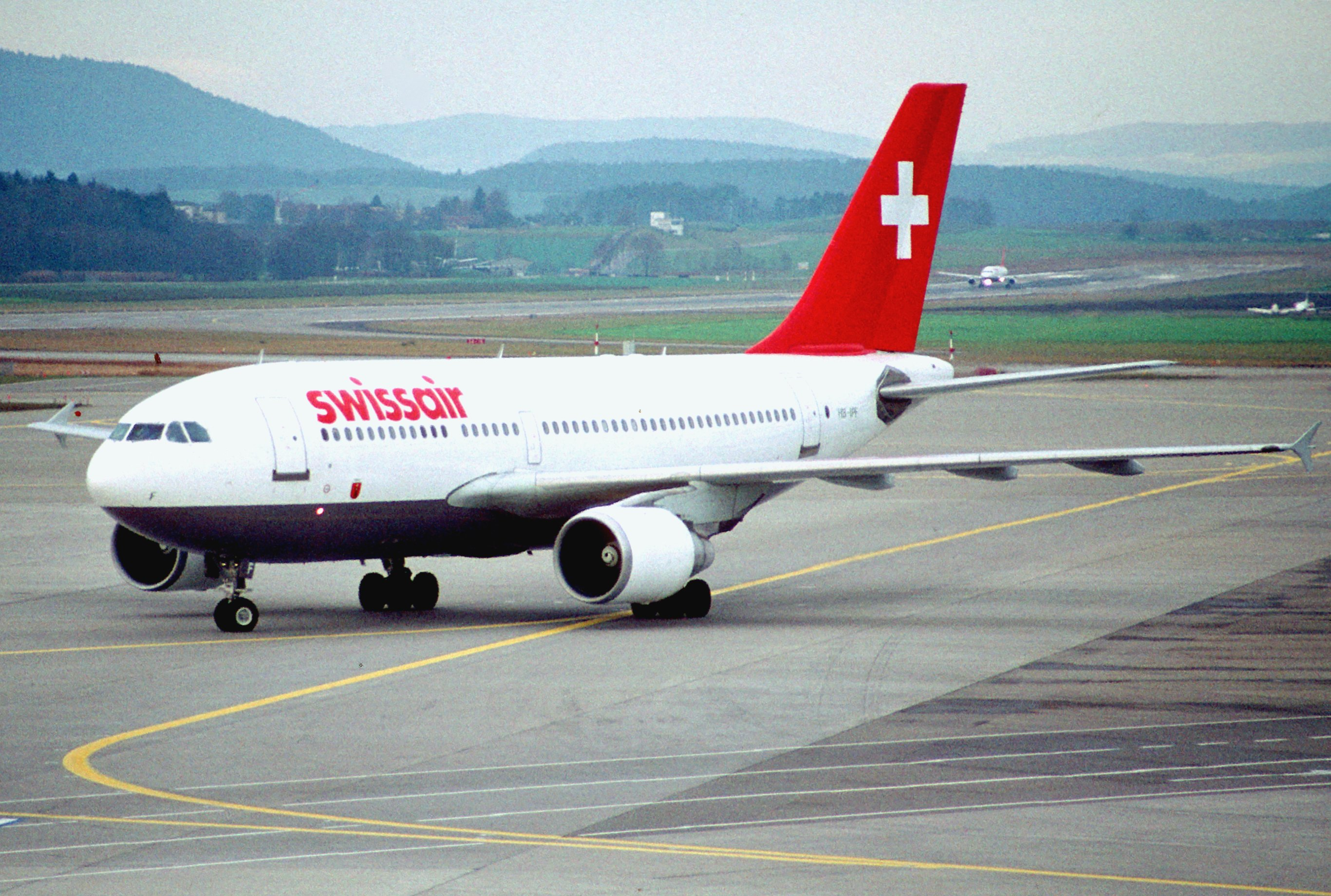 First flight: October 16, 1985...(c/n 399) 16/12/1985 Swissair HB-IPF 19/06/1999 Air Kazakstan UN-A3101 01/04/2006 Air West Cargo UN-A3101, stored at Abu Dhabi